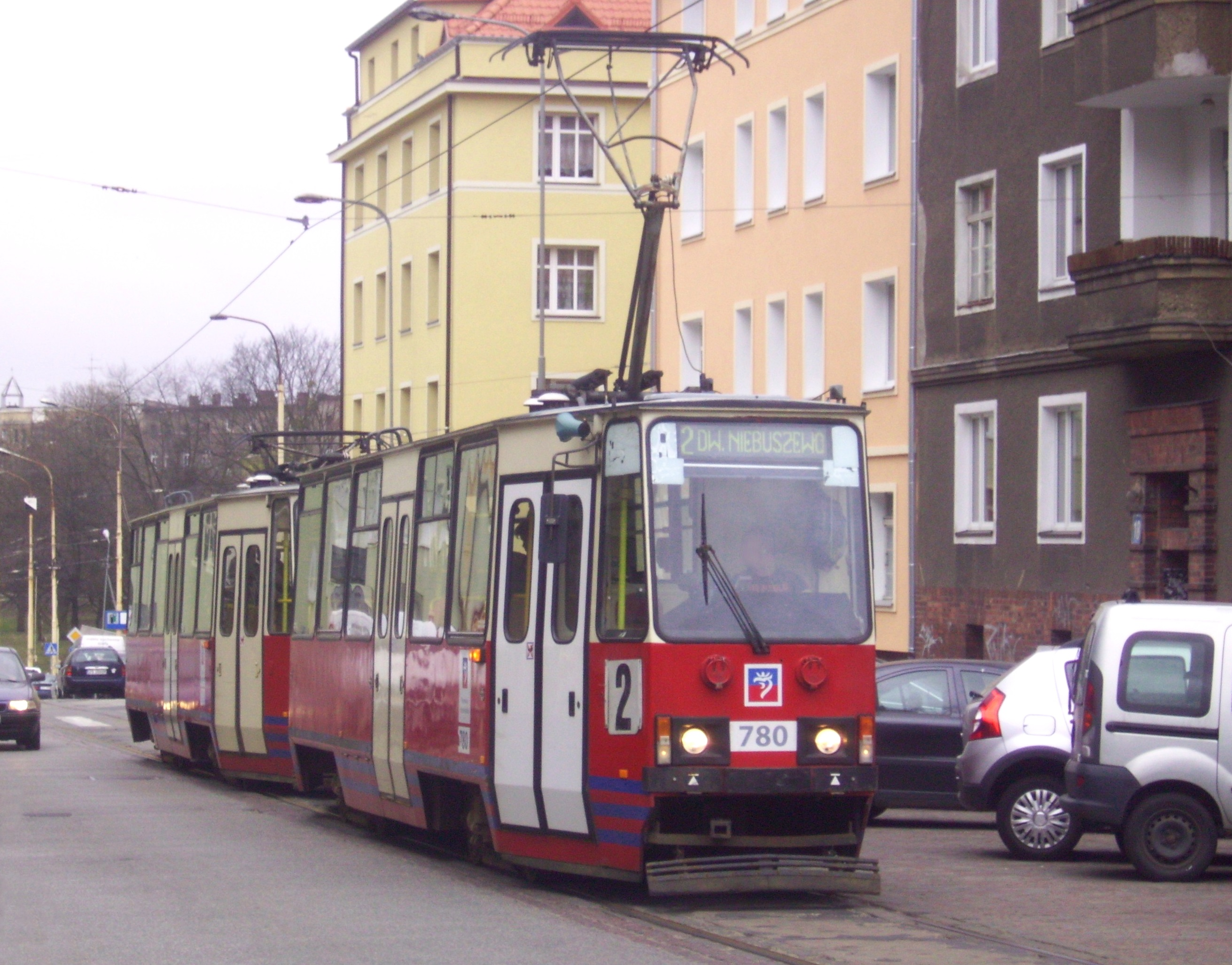 Konstal N105 (#780) in Szczecin, Poland.